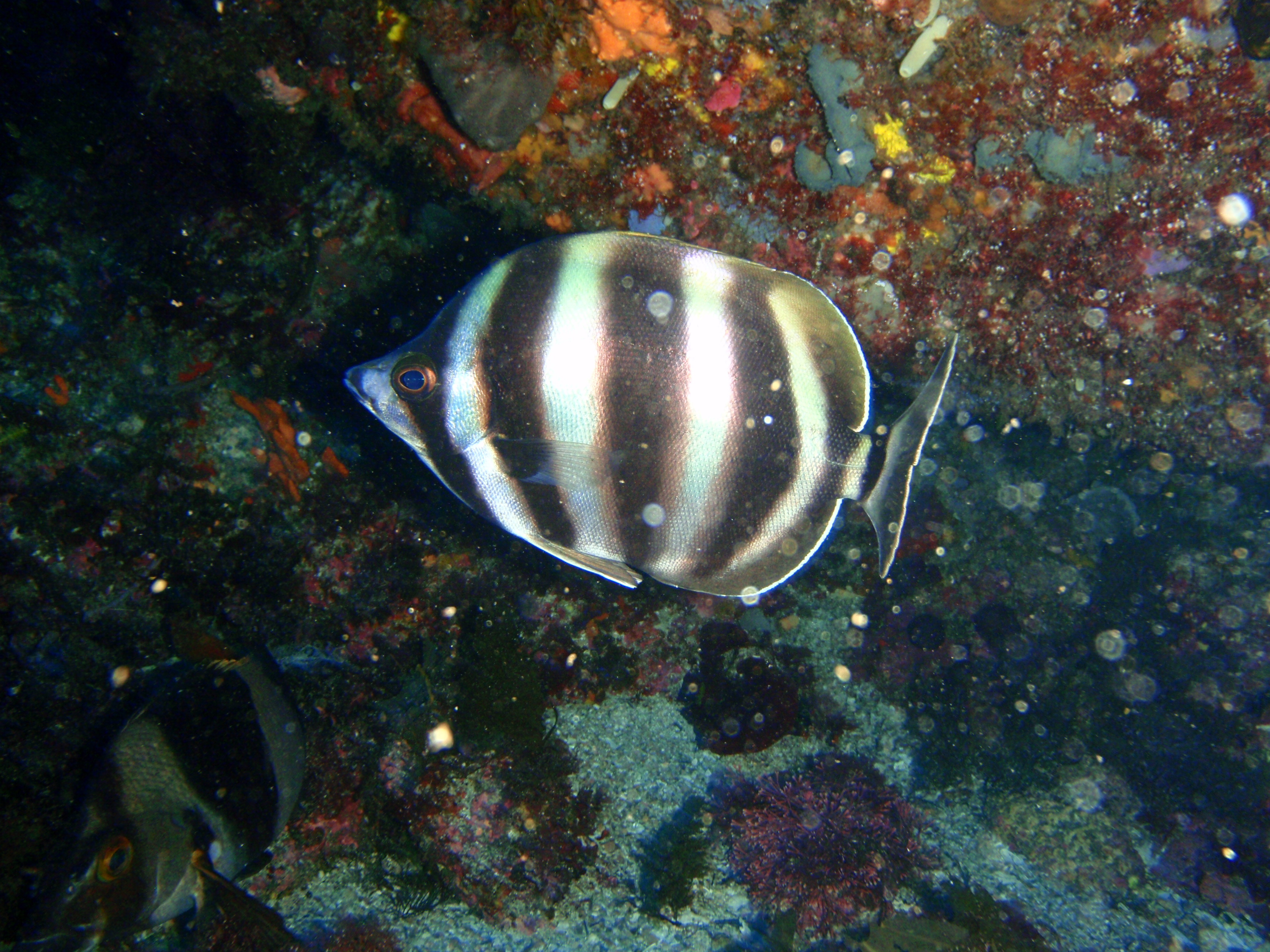 Sixbat coralfish Tilodon sexfasciatus at the north of Pearson Island, South Australia.